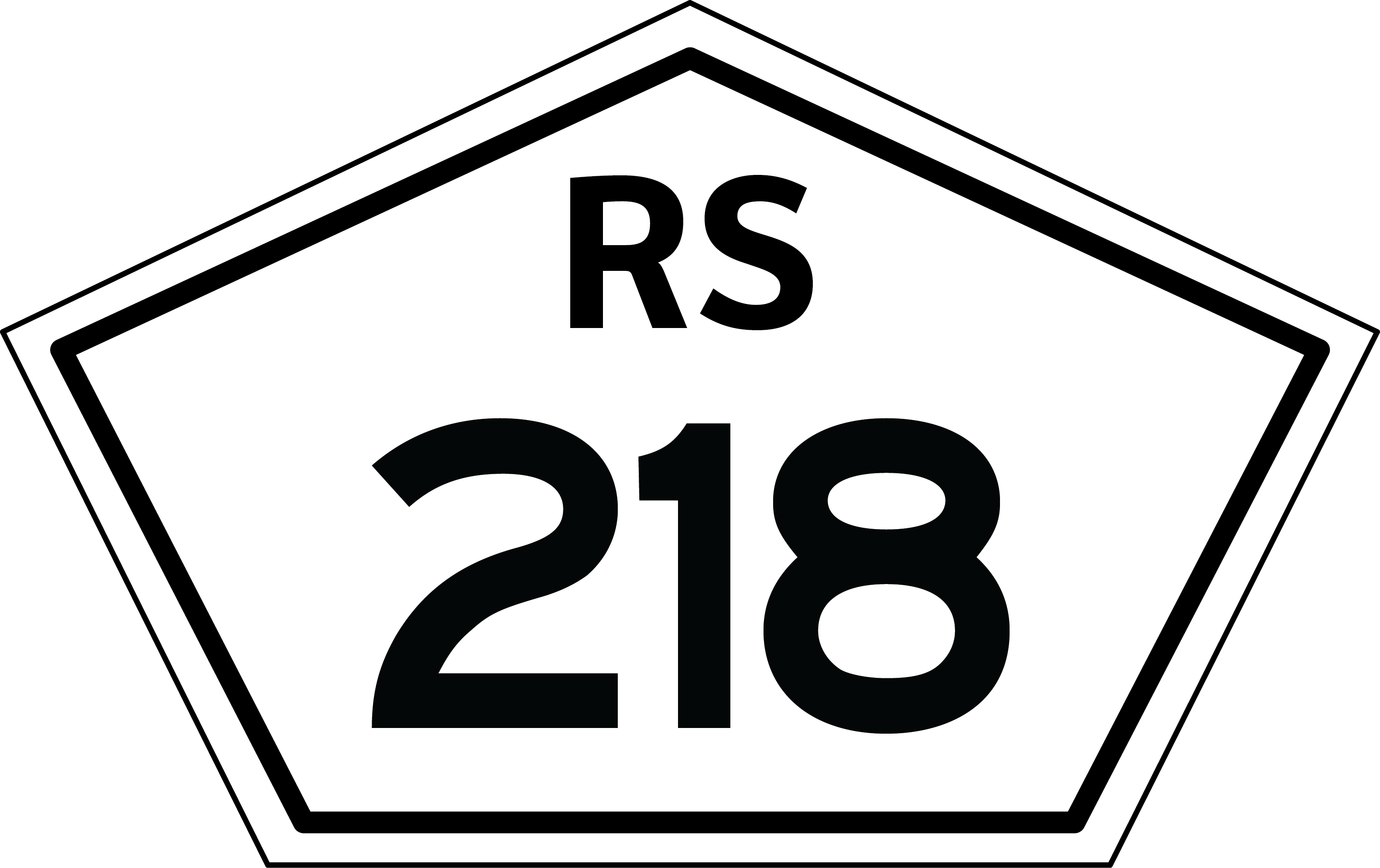 RS-218. State road in Rio Grande do Sul, Brazil. Rodovia estadual no Rio Grande do Sul, Brasil.